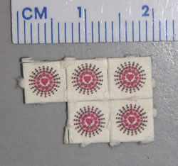 DOB (2,5-dimethoxy-4-bromoamphetamine) blotters seized in California